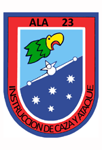 Ala 23 badge.